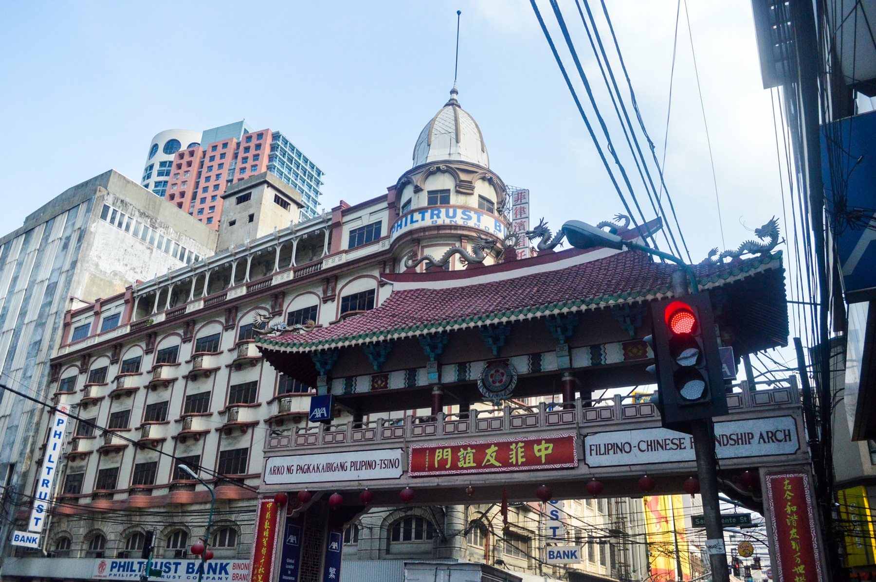 View of Mariano Uy-Chaco Building from Plaza Moraga